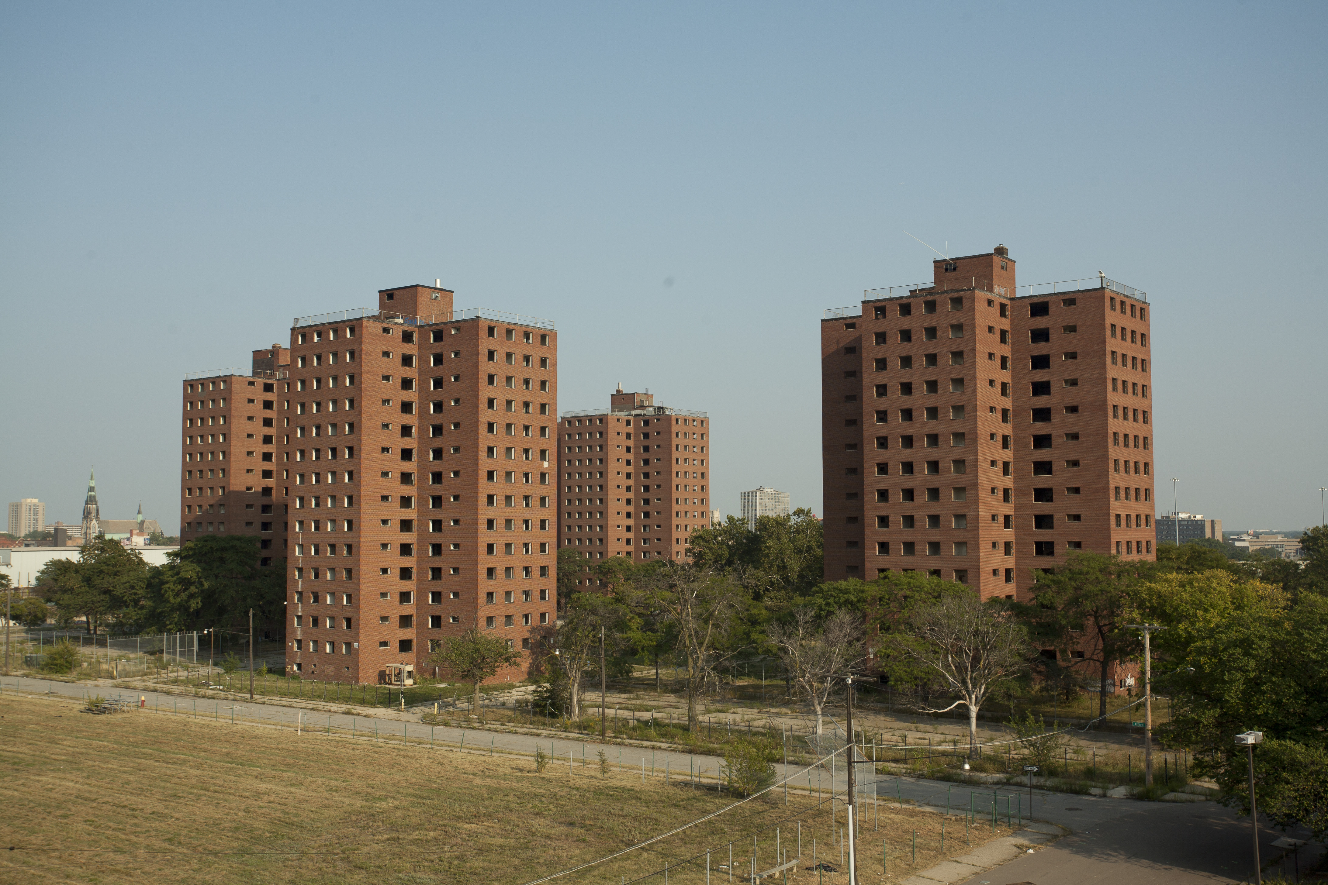 The four remaining towers of the Fredrick Douglass housing projects as seen from the nearby Brewster mid-rise buildings.